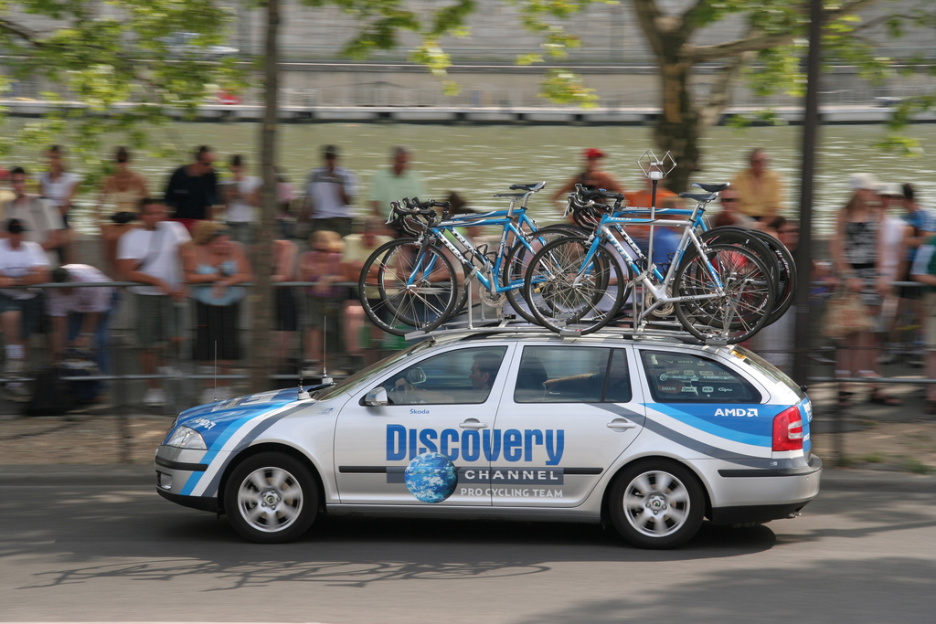 Discovery team car